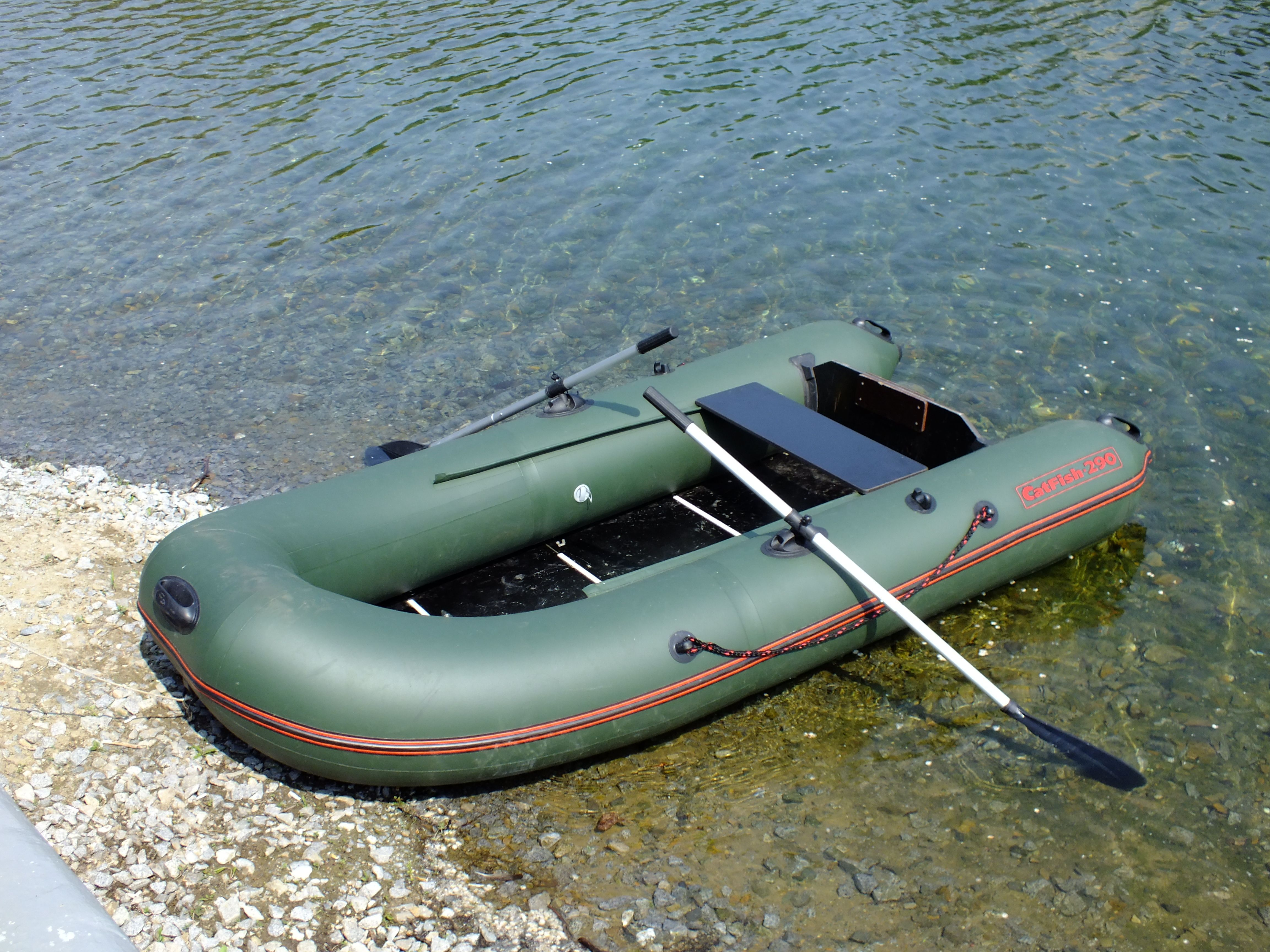 Надувная лодка Catfish-290